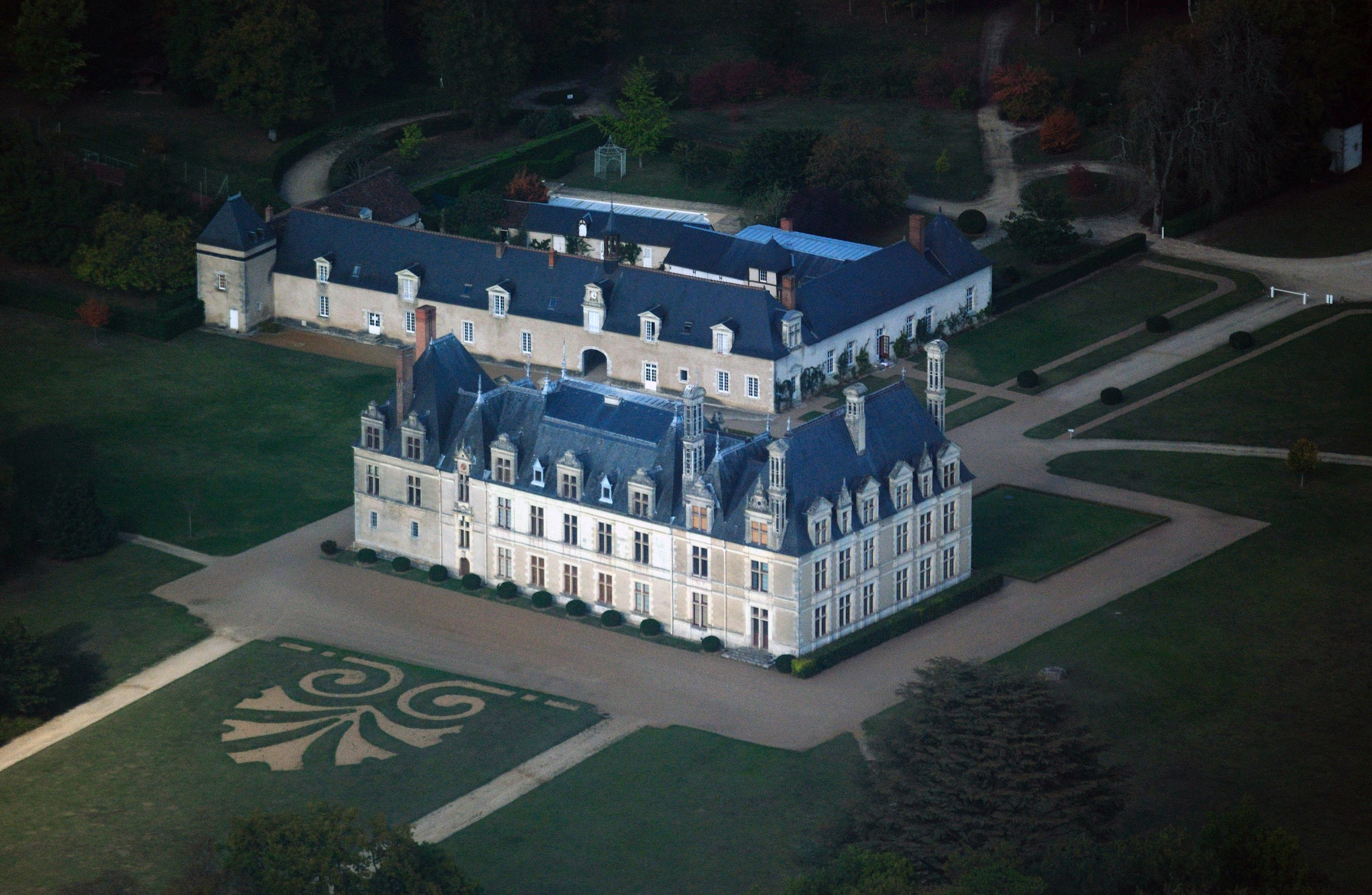 Aerial view of Beauregard castle at Cellettes (Loir-et-Cher department, France). Nikon D60 f=200mm f/5.6 at 1/1600s ISO 400. Processed using Nikon ViewNX 1.3.0 and GIMP 2.6.6.